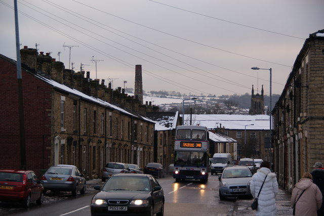 Huddersfield Road, Copley St Paul's Church tower is in the background.